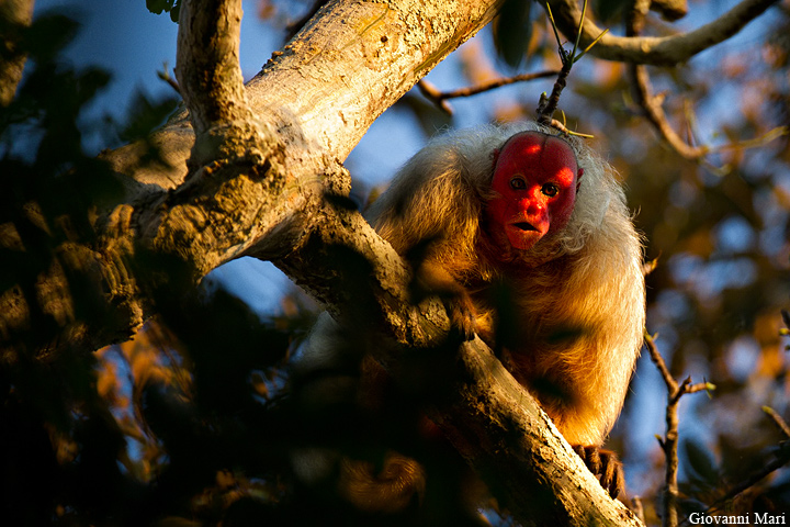 White-uakari (Cacajao calvus calvus) in Solimoes river, Brazil.